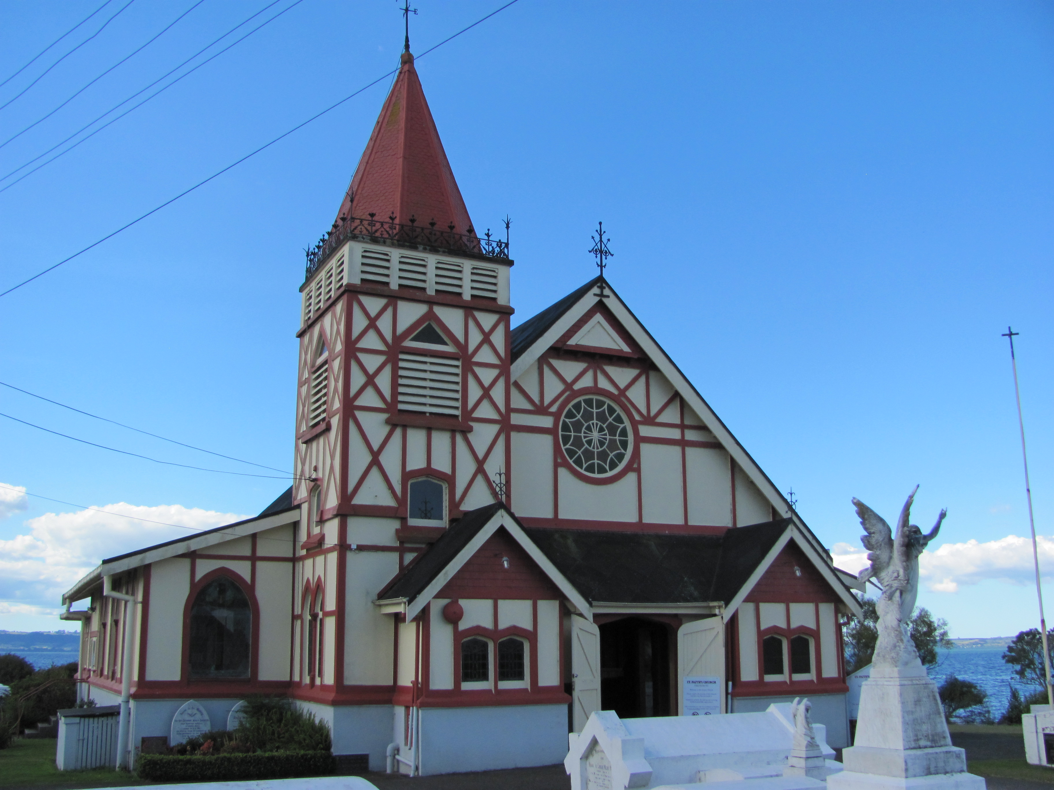 Church of St. Faith's, Rotorua, New Zealand